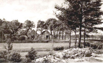 Sennelager Training Area near Paderborn, Germany, 1916